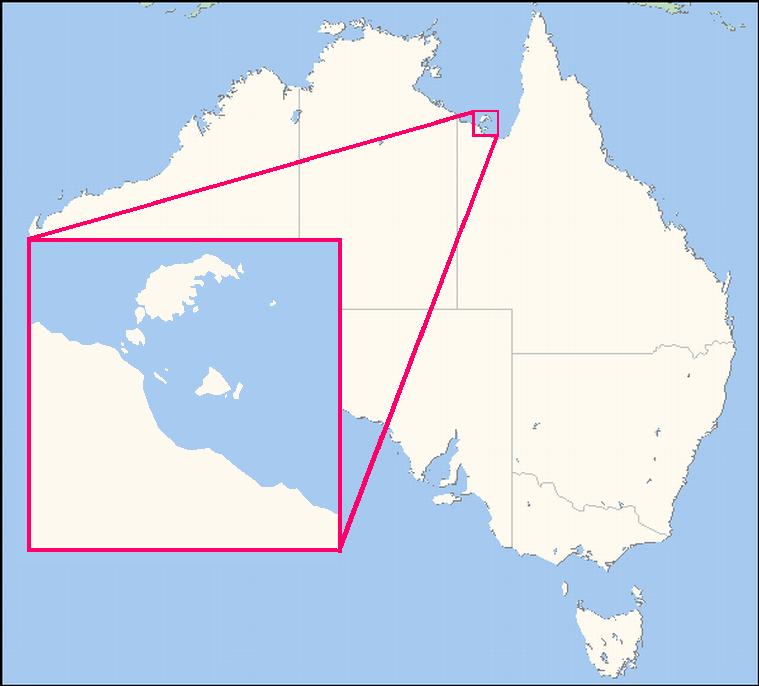 This map shows the location of the Wellesley Islands